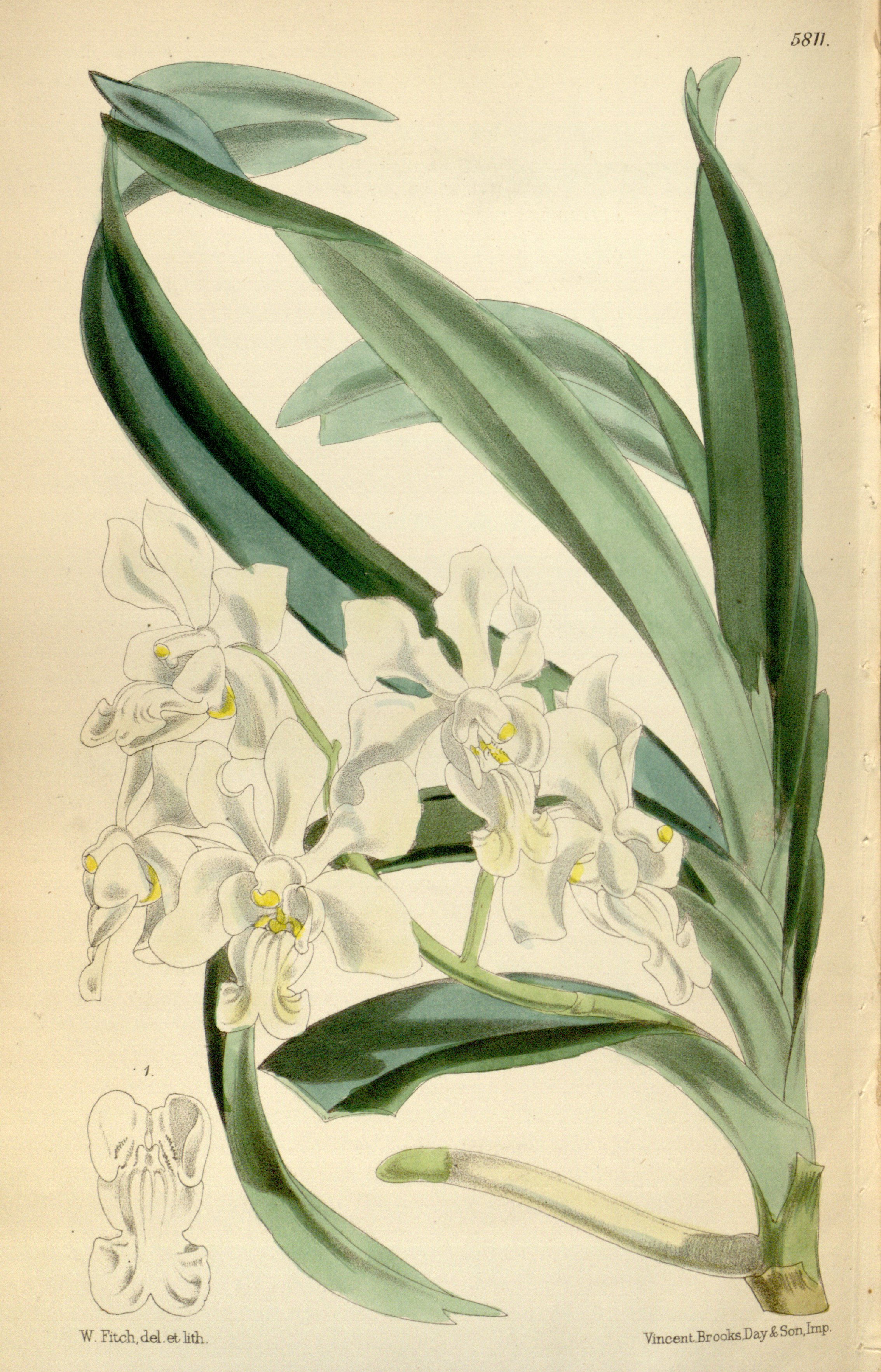 Illustration of Vanda denisoniana